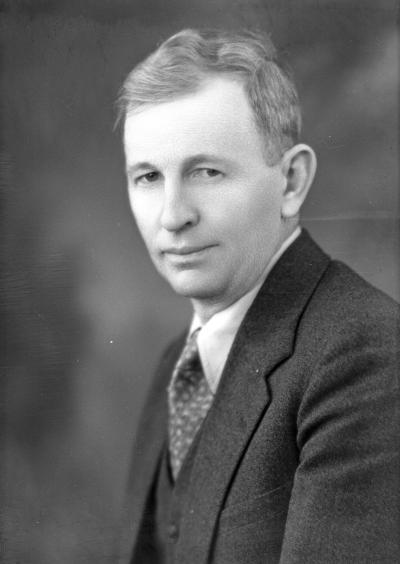 Representative W. E. Carty, 1933